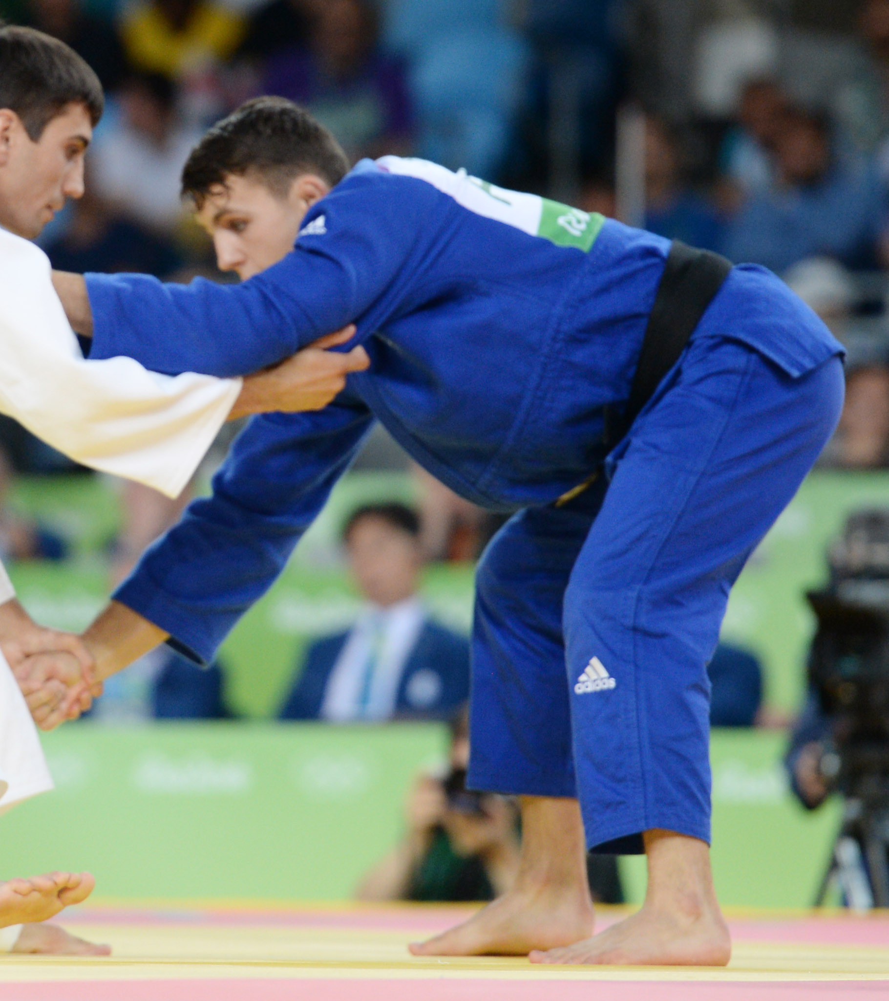 Judo at the 2016 Summer Olympics, Orujov vs Benstad